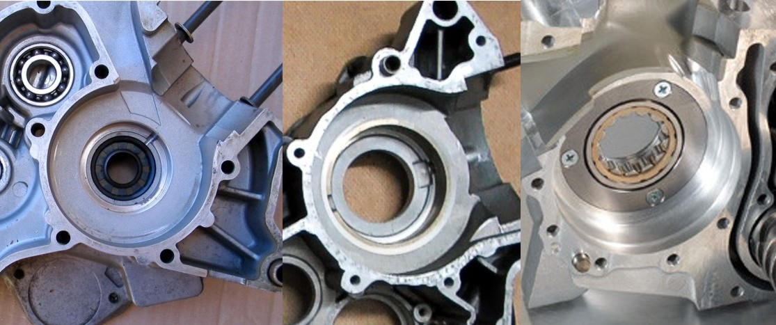 Three different types of bench support, on the left is formed directly in the crankcase, the center of a bushing is used to reduce damage from mounting and dismounting and maintain more constant the interference fit, to the right of the counter support is a bolted flange .